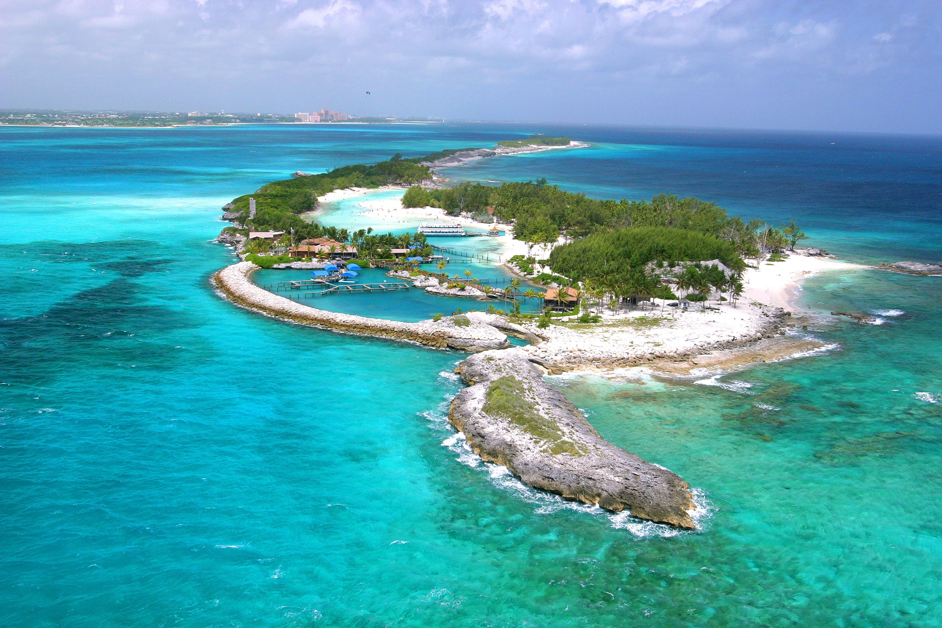 Ariel Shot of Blue Lagoon Island